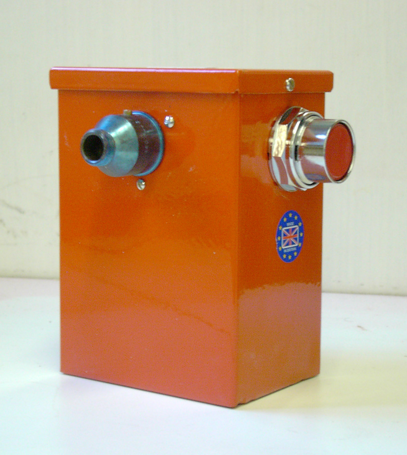 Flameless cigarette lighter, wall mounted.